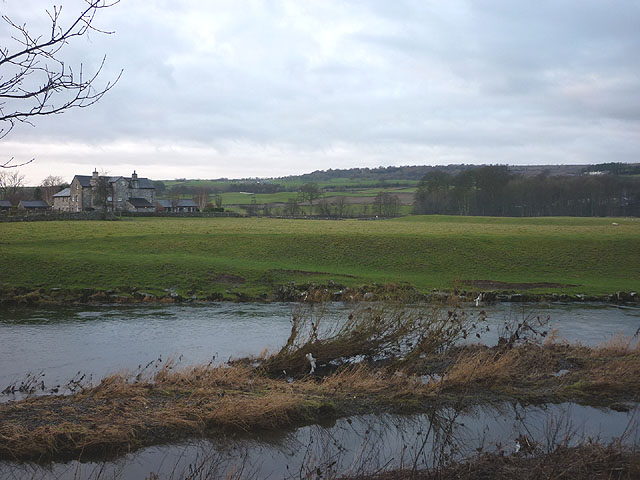 SD5190 : Watercrook Farm and the River Kent near to Natland, Cumbria, England, in the United Kingdom. A view from the north bank of the farm with the flat platform of the Roman fort of Alavana (also Alone, Alana, or Alunna) extending away to the right.